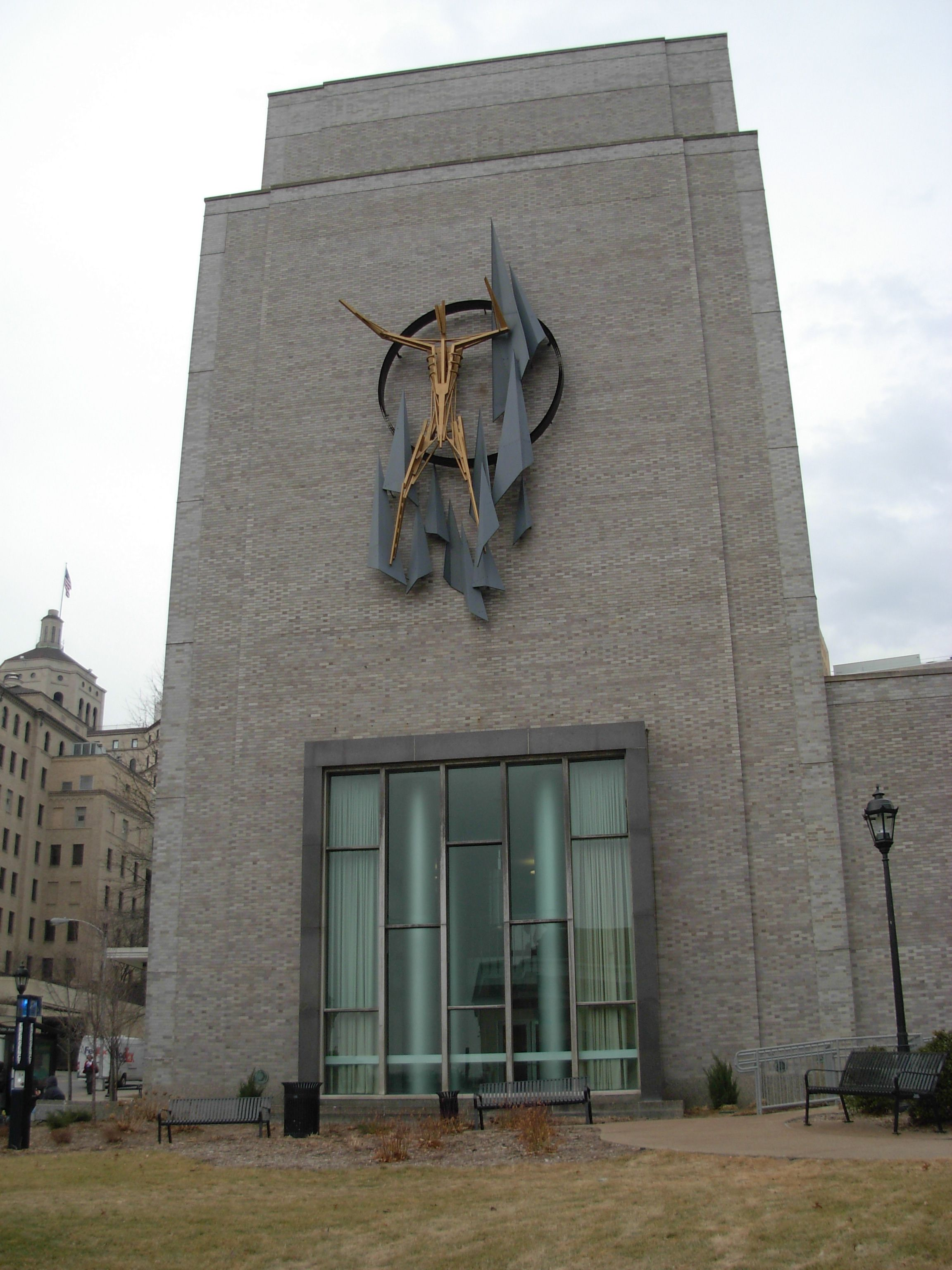 The Graduate School of Public Health and UPMC. Photo by myself.